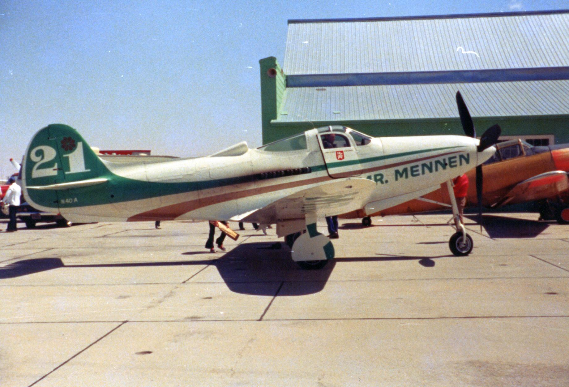 Bell P-39 Airacobra racer (US)